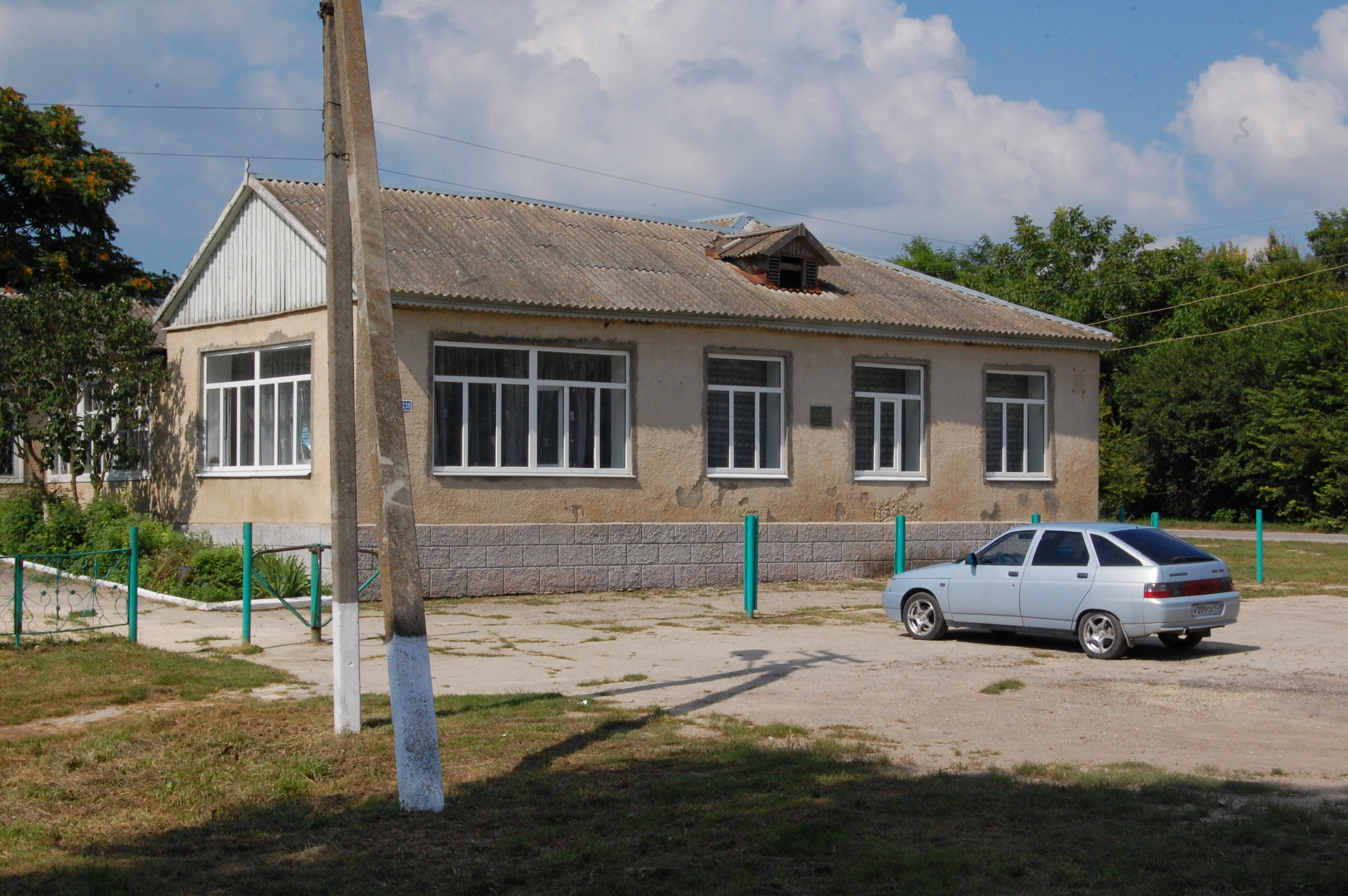 Yurovka (Krasnodarsky Kray): the library and the Pilenko museum.